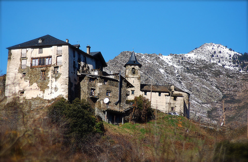 Surri (Vall de Cardós), Pallars Sobirà, Catalunya